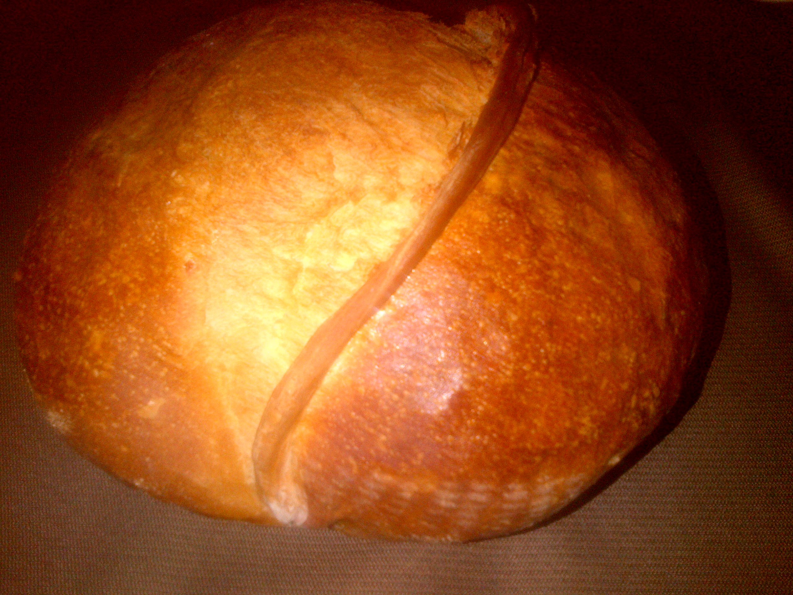 Vakfıkebir ekmeği (Turkish bread from Vakfıkebir, Black Sea Region), around 3-4 kg.